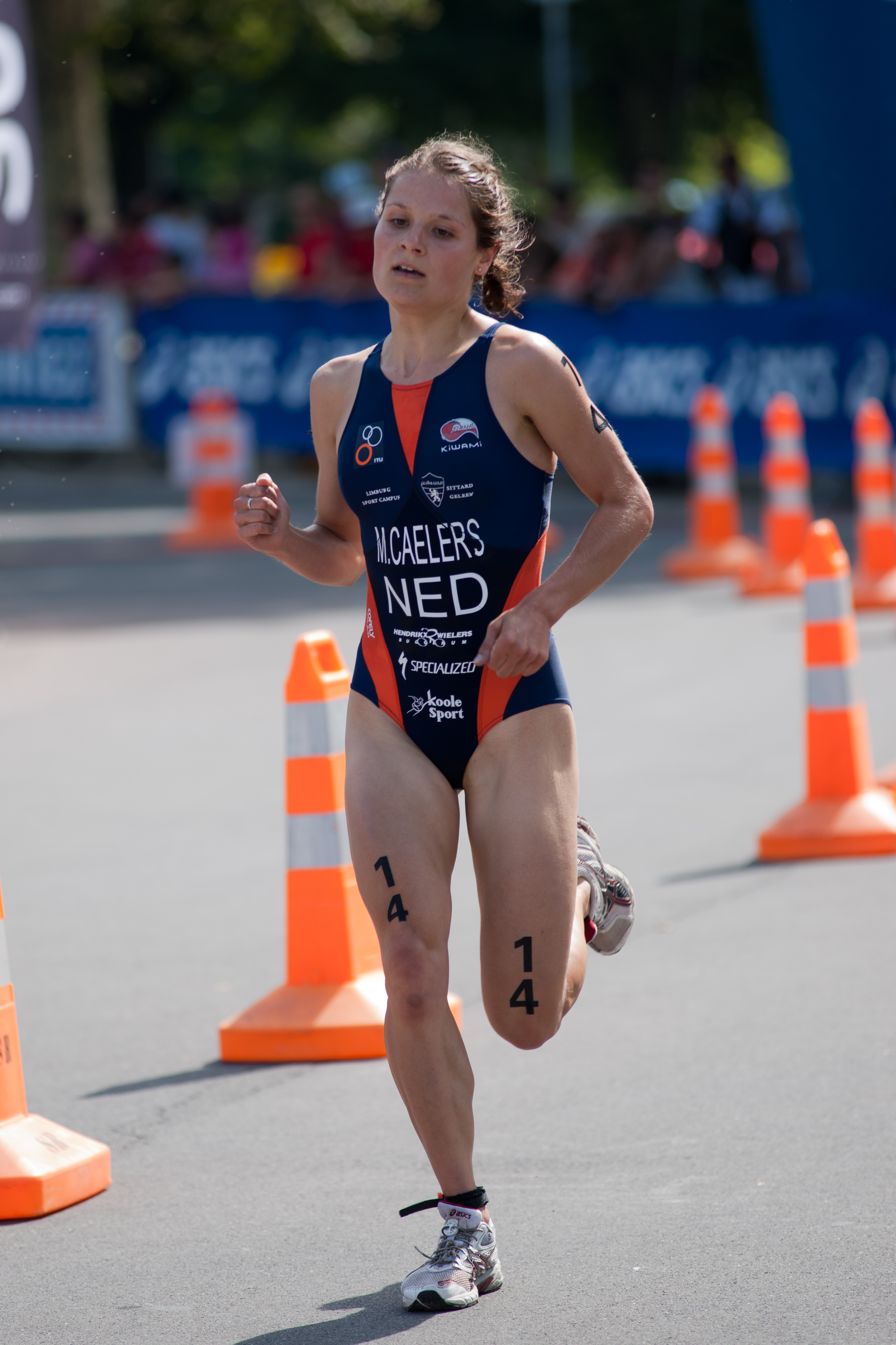 2010 ITU Sprint Distance Triathlon World Championships, Lausanne, Switzerland.